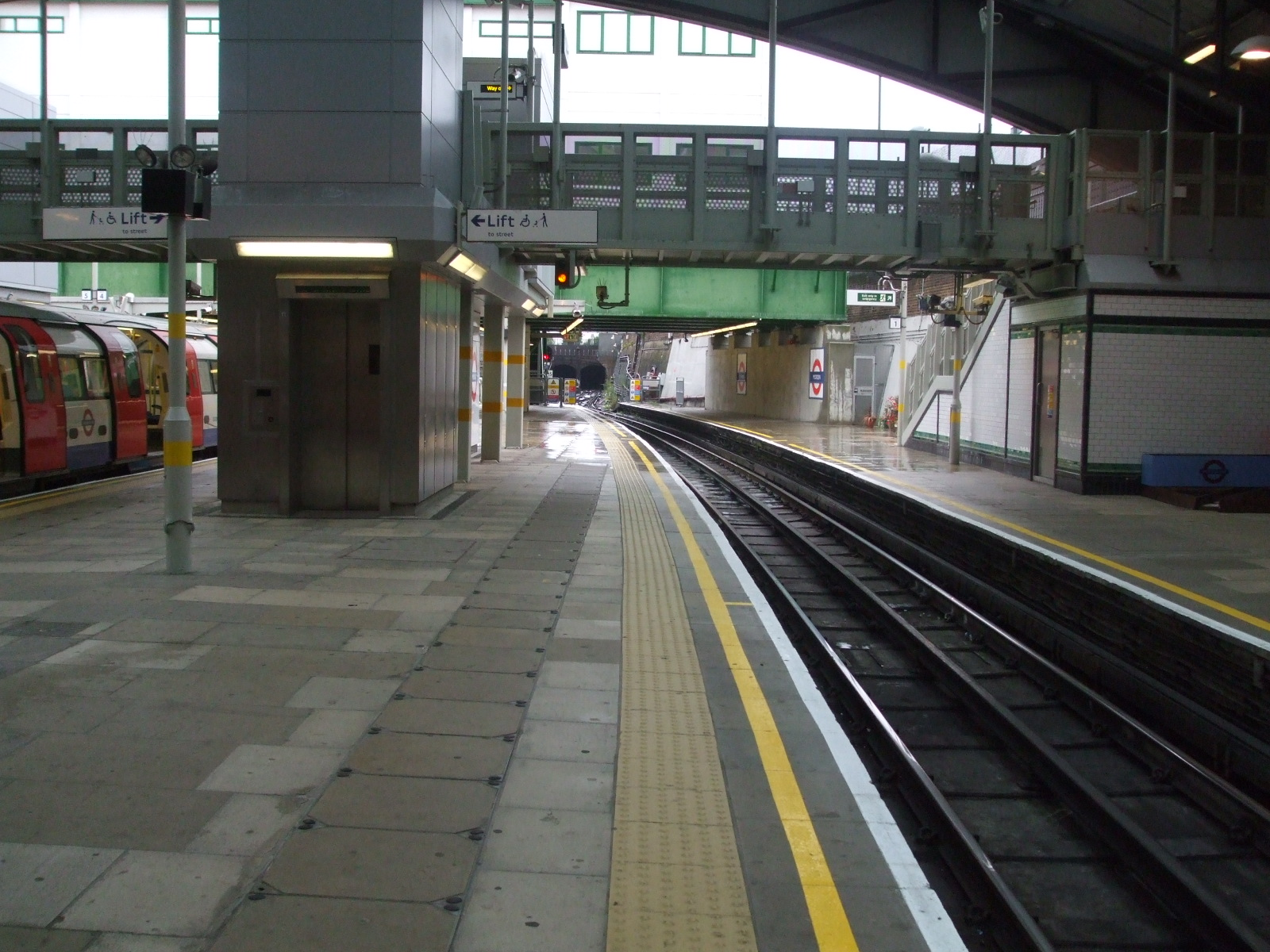 Morden tube station platform 2 looking north towards the tunnel portals. Platform 1 on the right is presently (August 2008) out of public use.